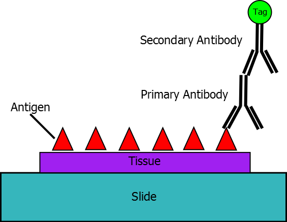 This cartoon image provides a concise summary of the basic elements involved in immunolabeling.